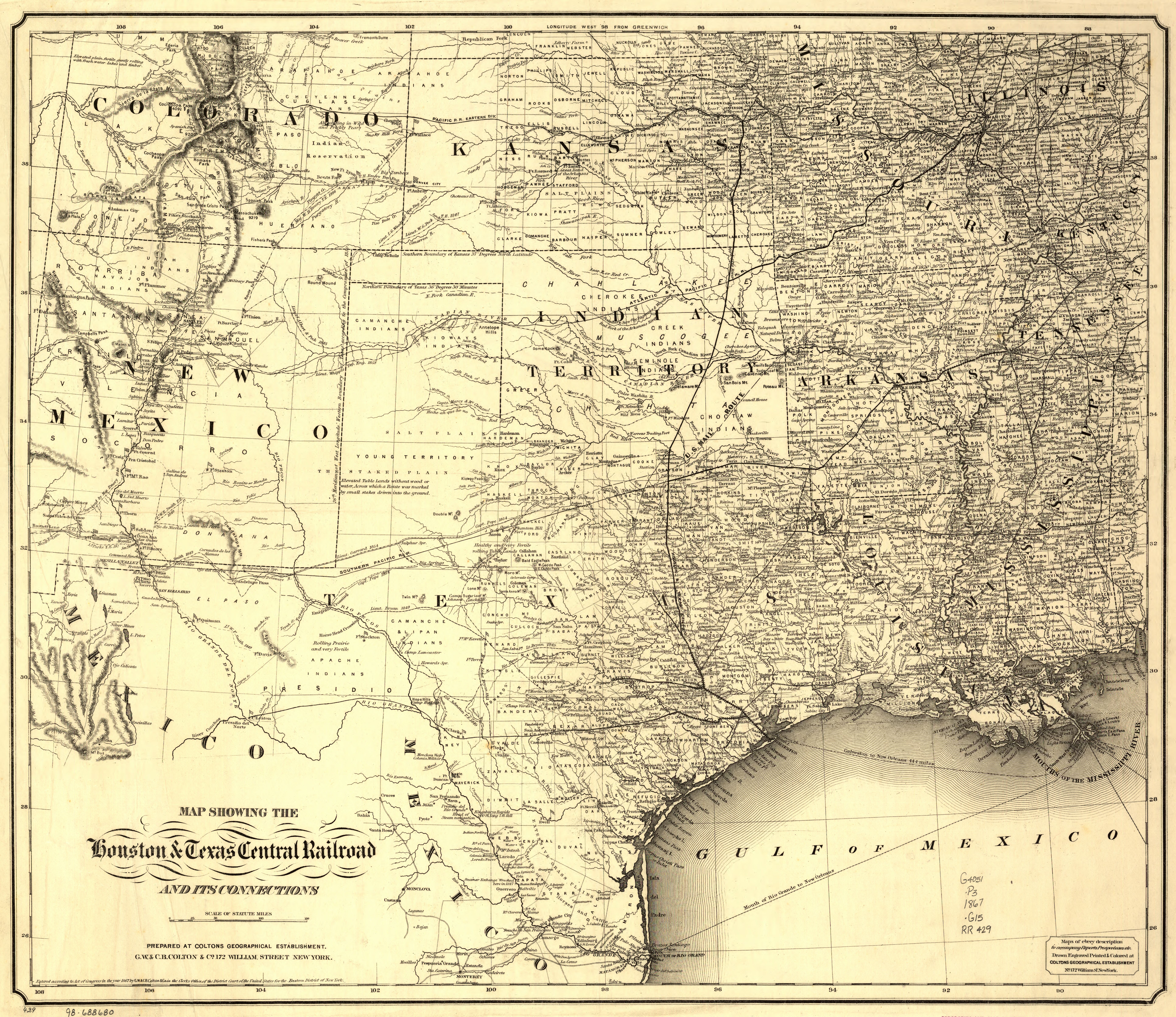 Part of southwestern United States showing relief by hachures, drainage, cities and towns, counties, and the railroad network with emphasis on the main line.